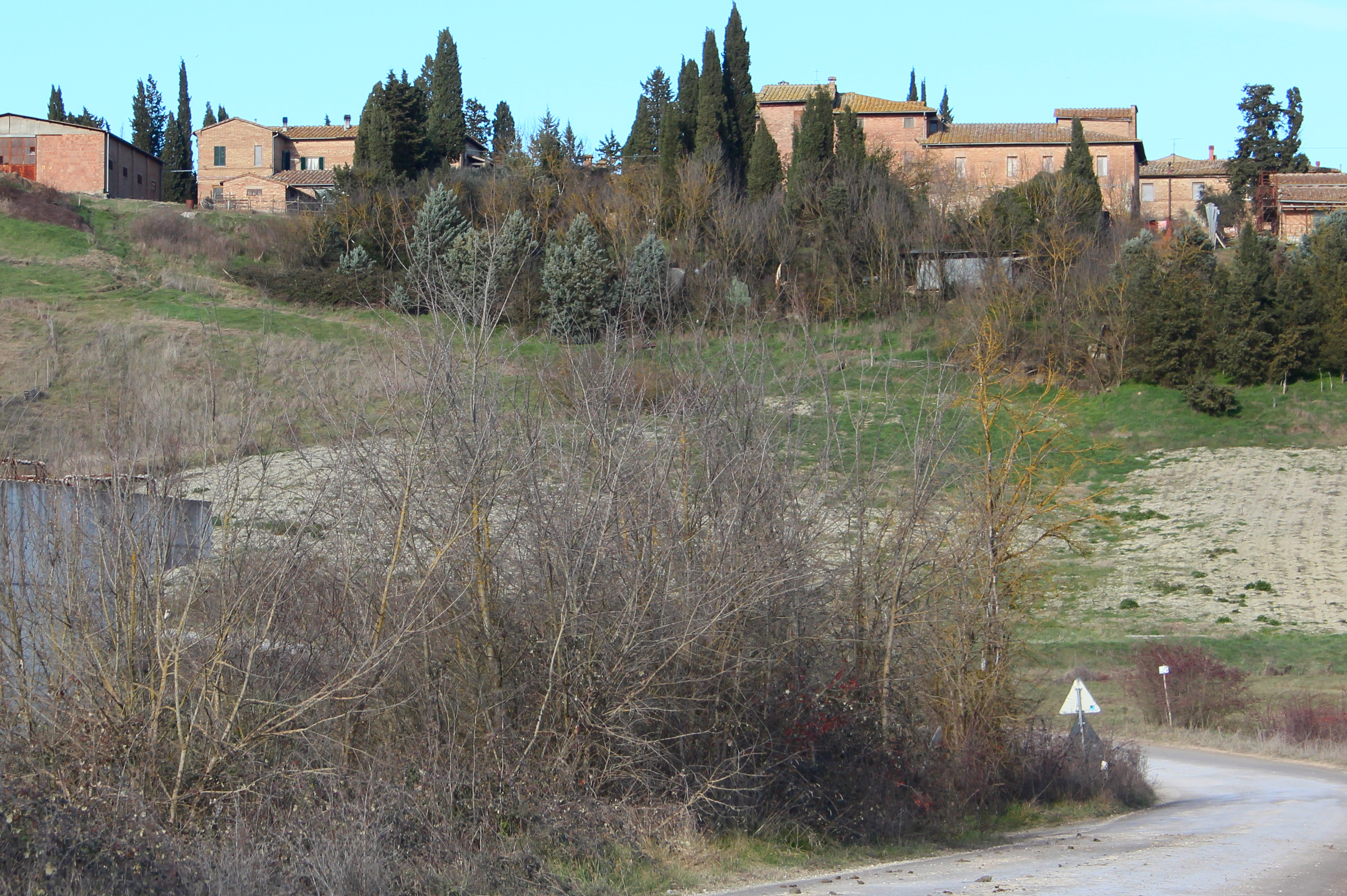 Colle Malamerenda, hamlet of Siena, Tuscany, Italy